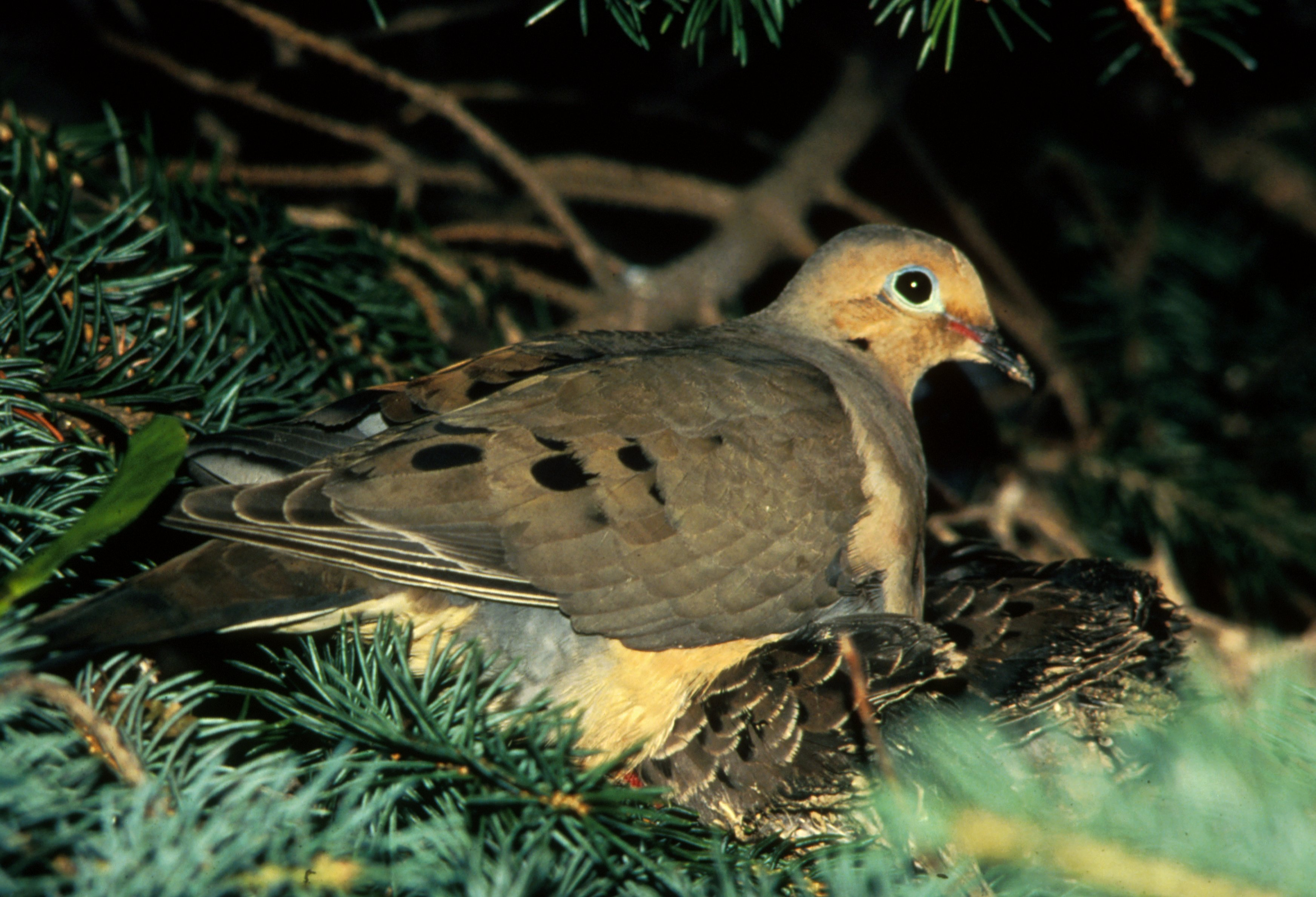 Zenaida macroura, Mourning Dove and Young